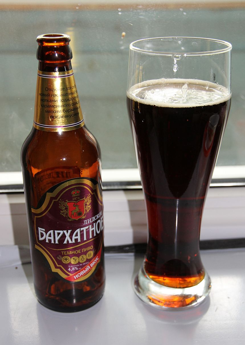 Dark beer from Lidskoje pivo brewery of Lida, Hrodna region, Belarus. This beer has 4.8% alcohol.